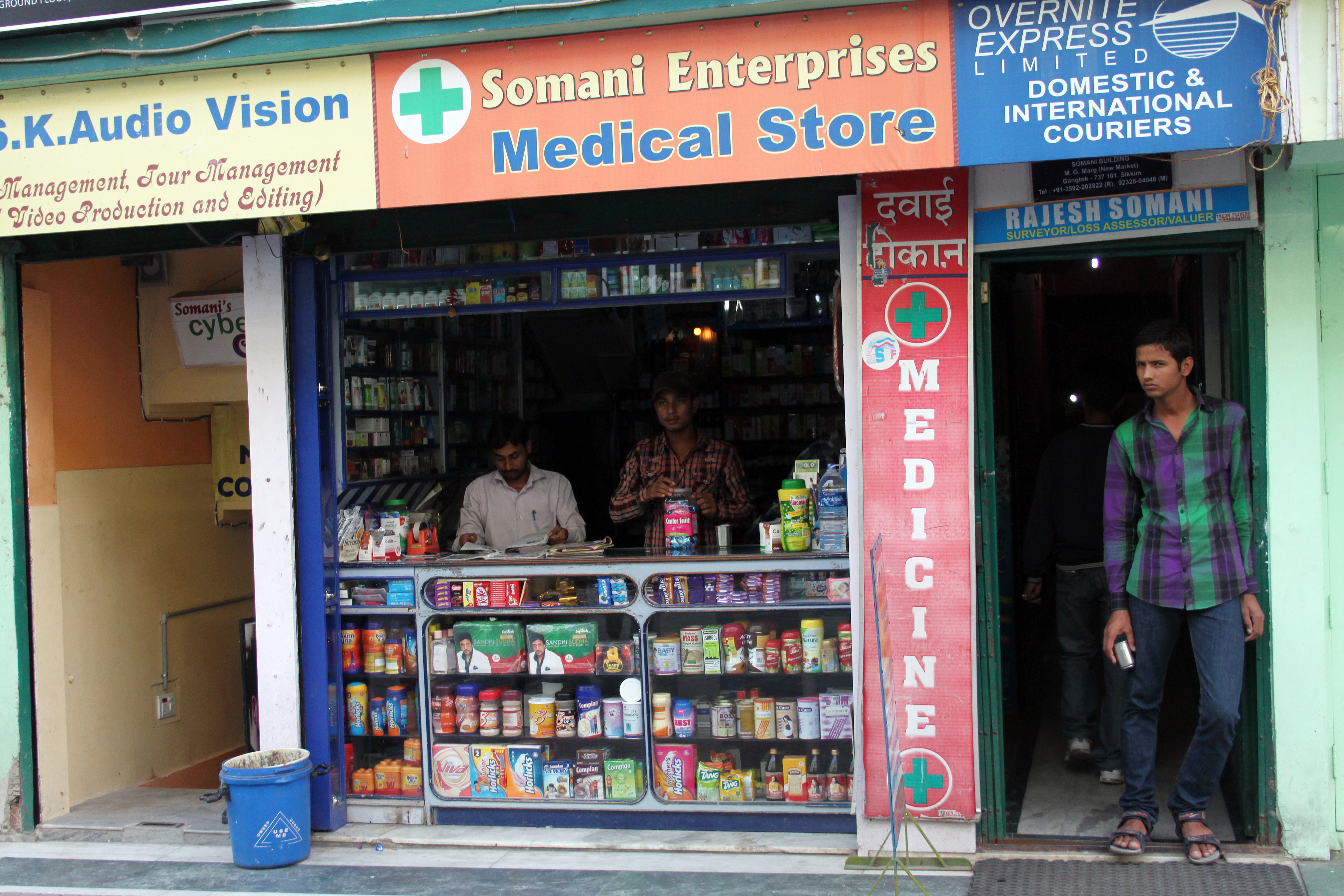 A pharmacy in Gangtok, India. The pharmacy has a counter open to the street for walk-up business